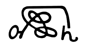 A monogram of Queen Tamar of Georgia, as it appears on the obverse of the contemporary coins (c. 1189-1213), minted in the name of Tamar.